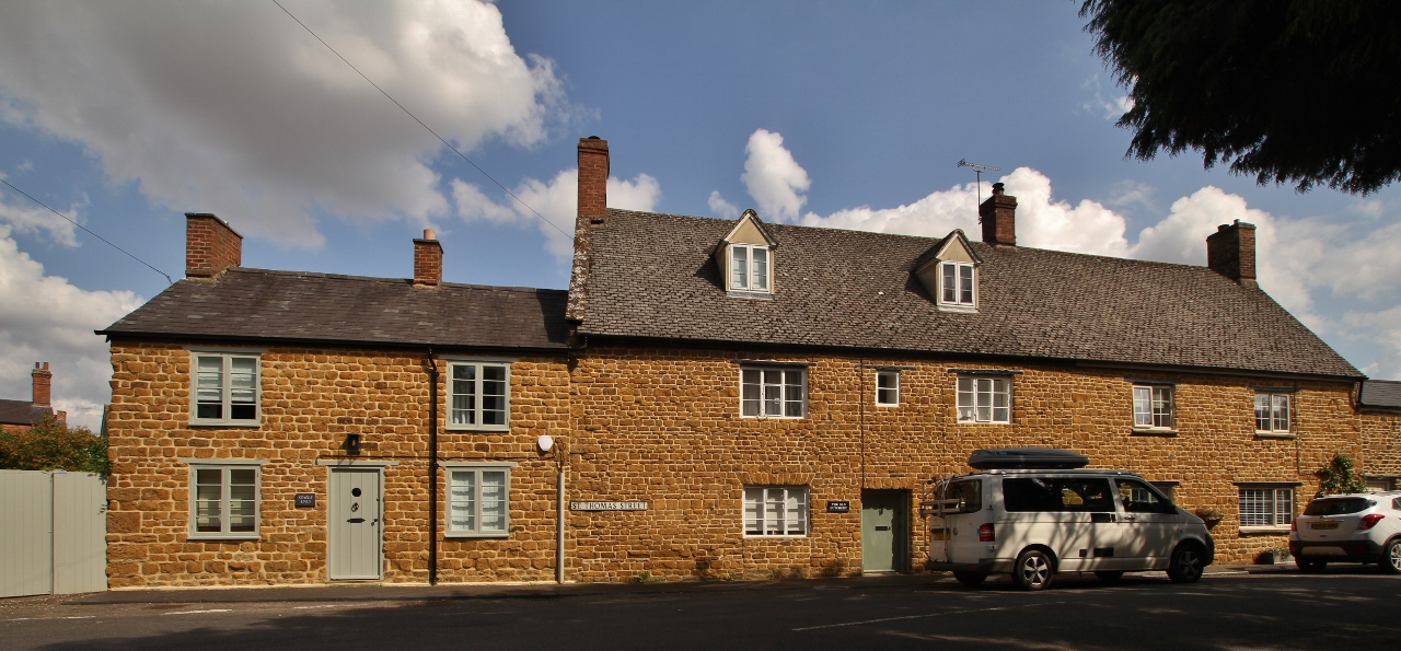 Cottages in St Thomas' Street, Deddington, Oxfordshire, seen from west-southwest. From left to right: Stable End, The Old Butchery, Pear Tree Cottage.